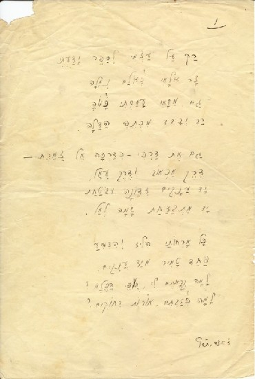 Handwiriting of poet Rachel Blubstein's poem "Rak Al Atzmi"